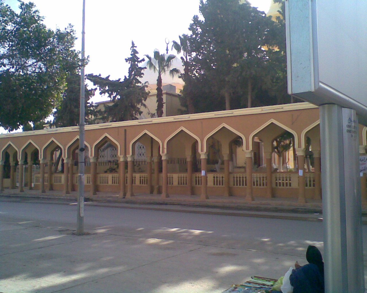 Arcade at the As Sahaba mosque, Derna, Libya.